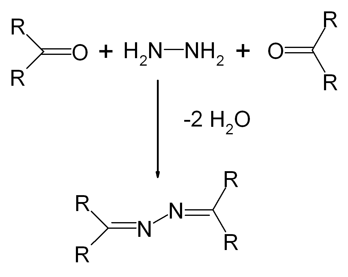 Formation of Azines